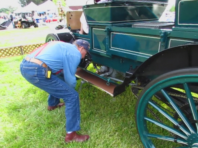 1912 International Auto Wagon Crank Starting Fulton, California, United States